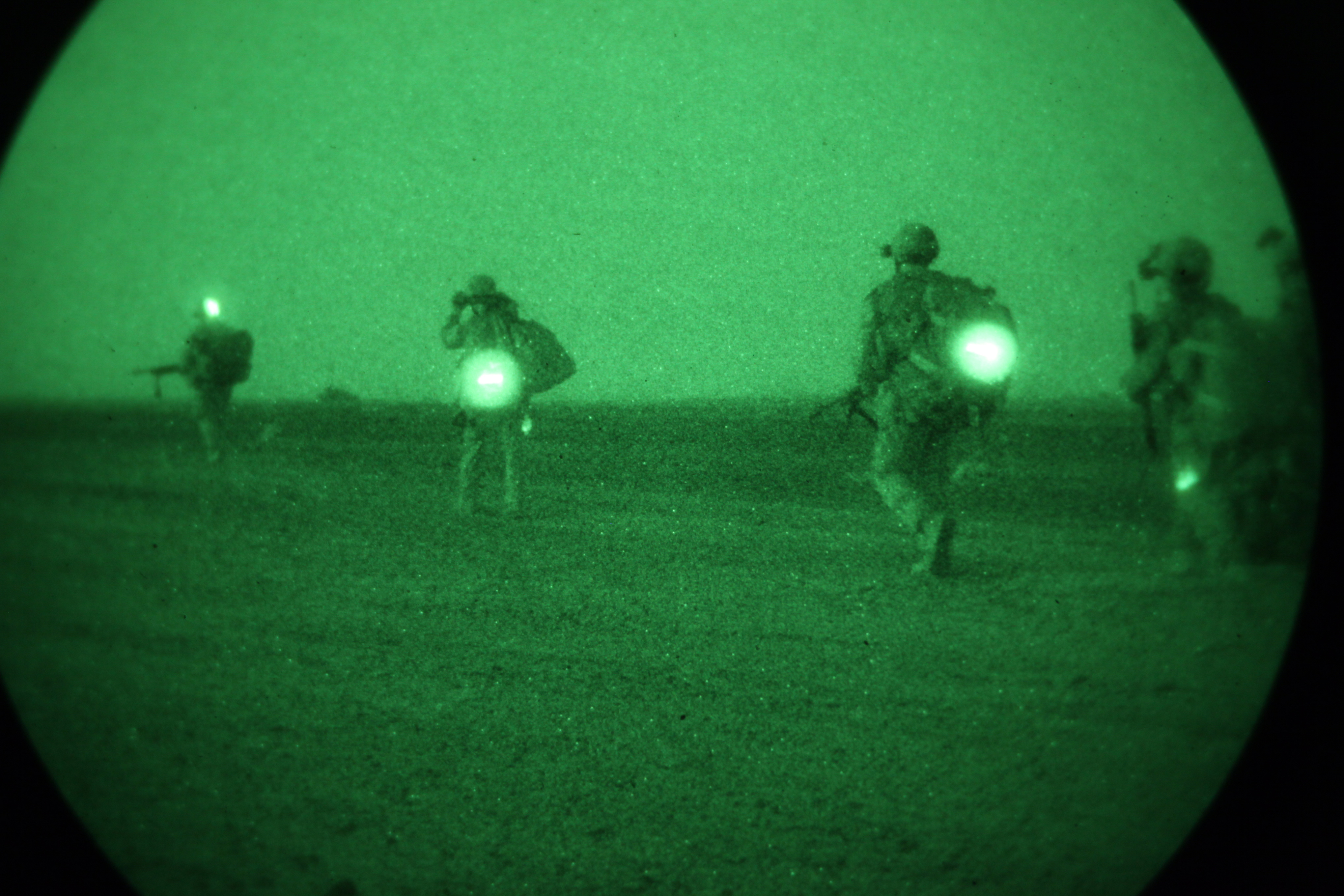 U.S. Marines assigned to Bravo Company, 1st Reconnaissance Battalion, 1st Marine Division (Forward), patrol the area after jumping out of a C-130 over Camp Dwyer, Afghanistan, Oct. 5. Once on the ground, the Marines were expected to consolidate their weapons systems, execute a communication plan for accountability, and then conduct a movement to action on the objective carrying packs and gear that weighed anywhere from 340 to 420 Ibs. The unit is deployed to Afghanistan conducting counter insurgency operations in support of the International Security Assistance Force. Unit: 1st Marine Division